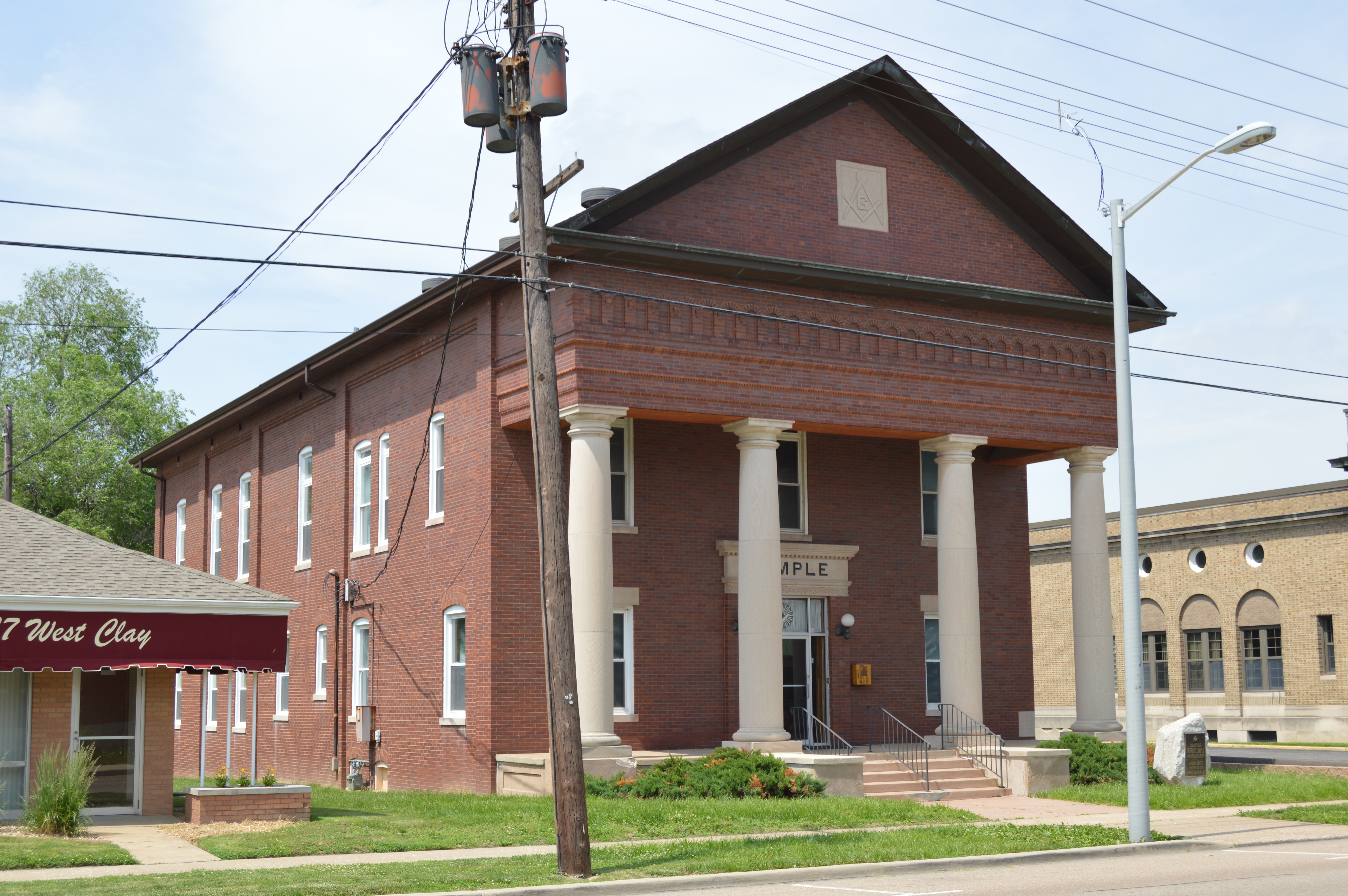 Western side and front of the Collinsville Masonic Temple, located at 213 W. Clay Street in Collinsville, Illinois, United States. Built in 1912, it is listed on the National Register of Historic Places.